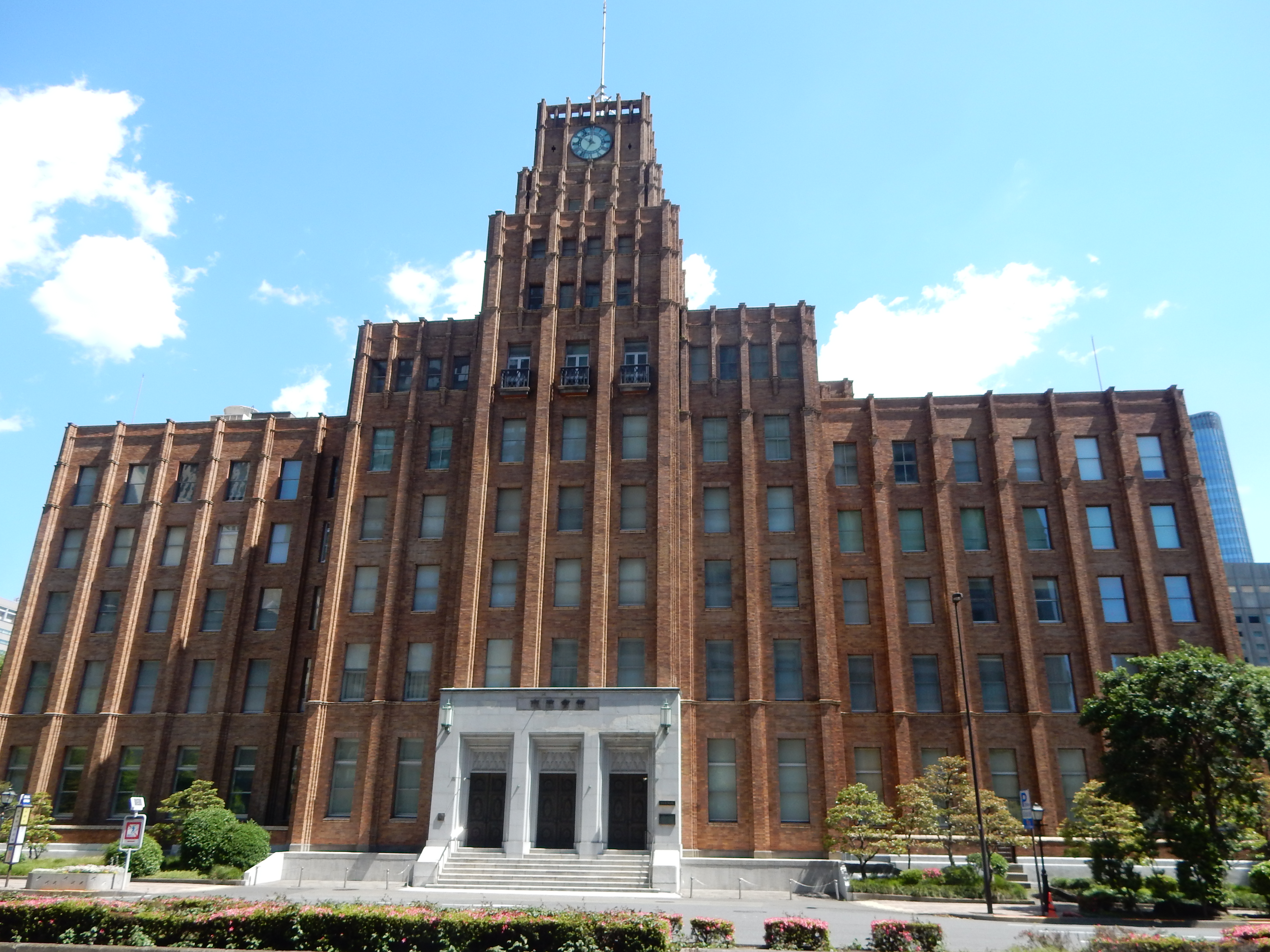 Municipal Research Building (市政会館), located at 1-3 Hibiya Kōen, Chiyoda, Tokyo, Japan